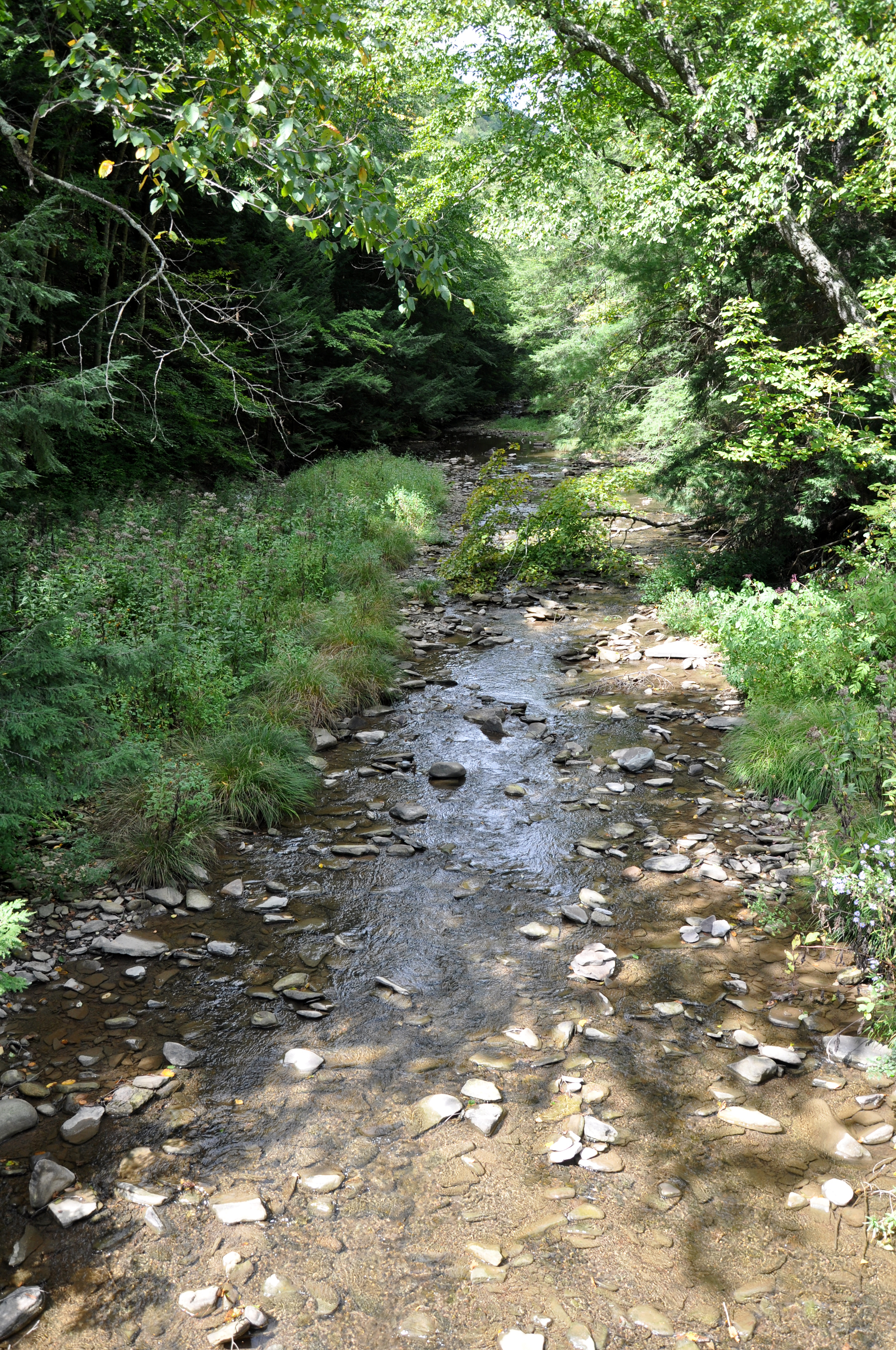 Stony Fork, a tributary of Babb Creek in the U.S. state of Pennsylvania. View is from a bridge along Stony Fork Creek Road downstream of Stony Fork Creek Campground.